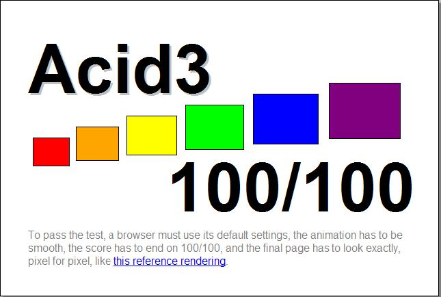 Results in Acid3 opera browser